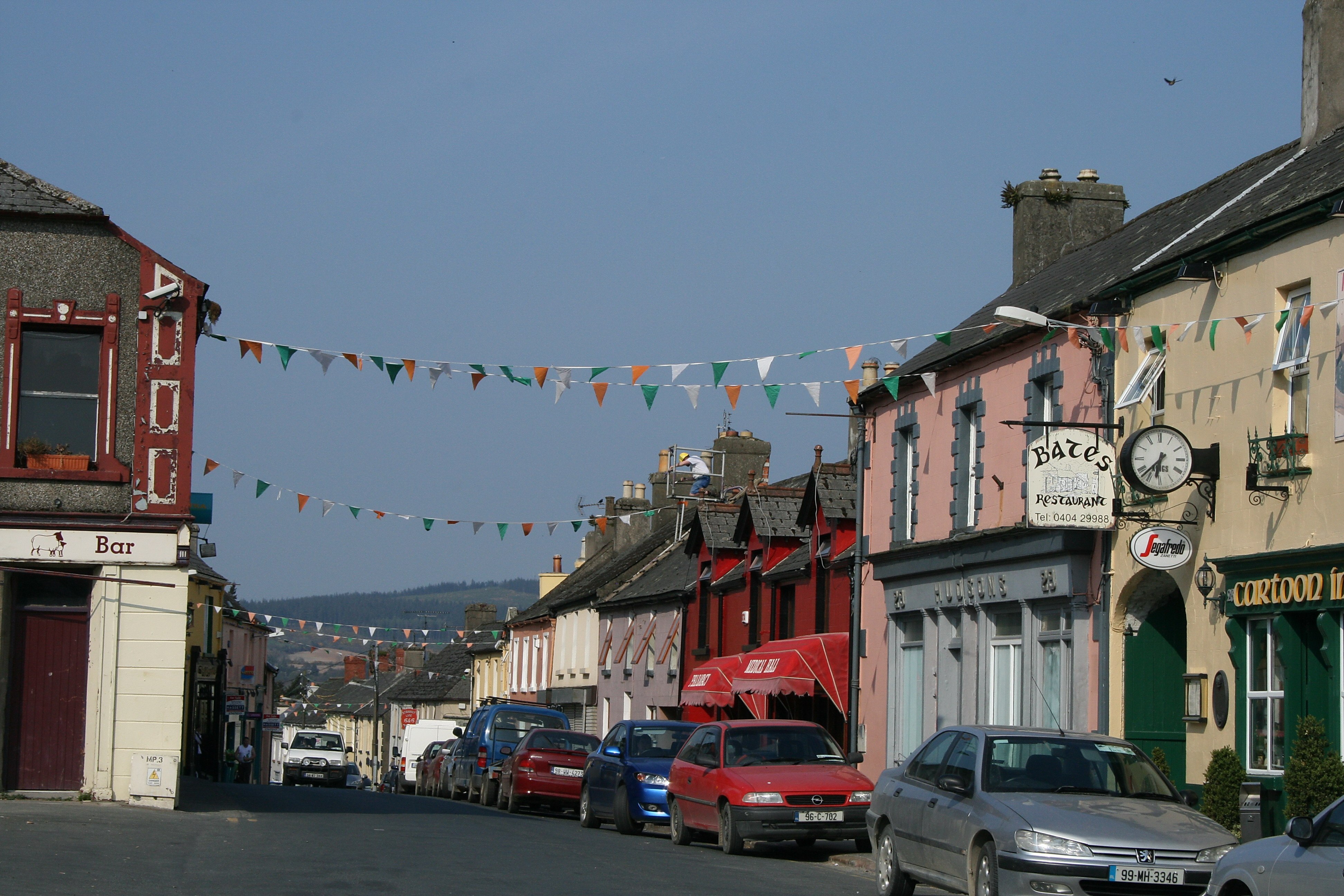 Rathdrum, County Wicklow